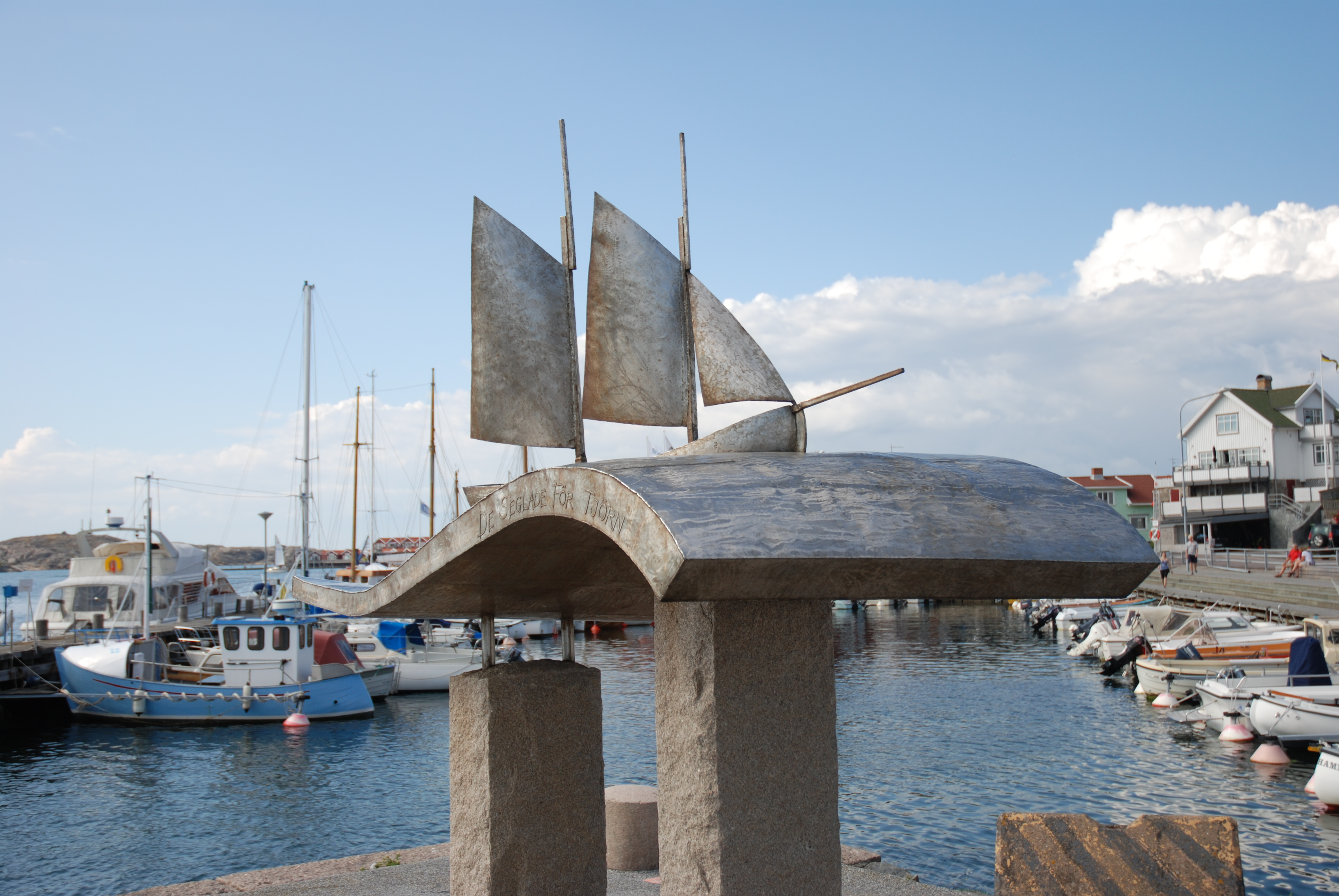 Sculpture by Bosse Anås, "De seglade för Tjörn" ("They sailed for the island of Tjörn"), a monument to local sailors in the harbour of Skärhamn, Sweden